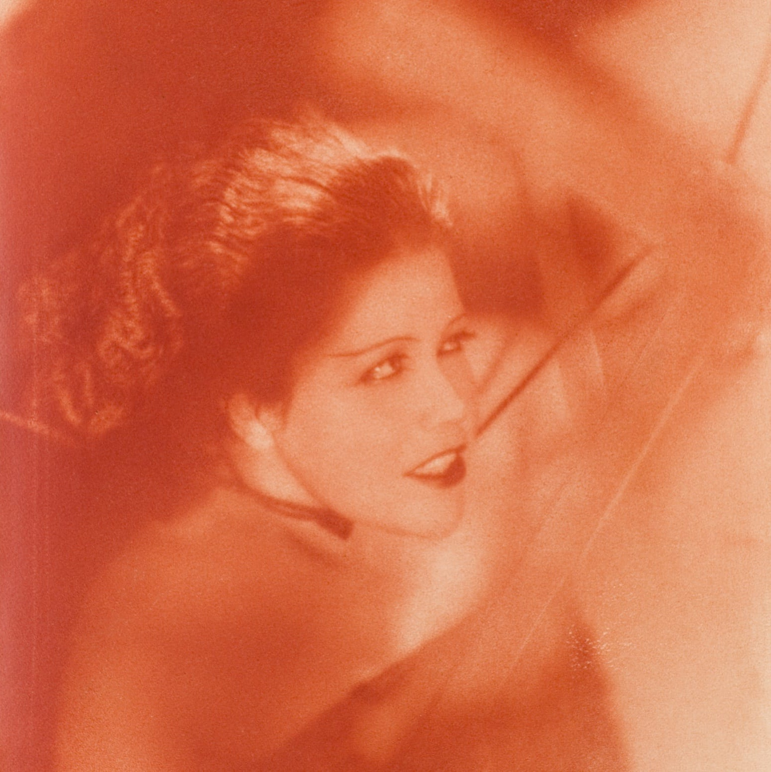 Actress Anny Ondráková, 1920s, oil print, private collection